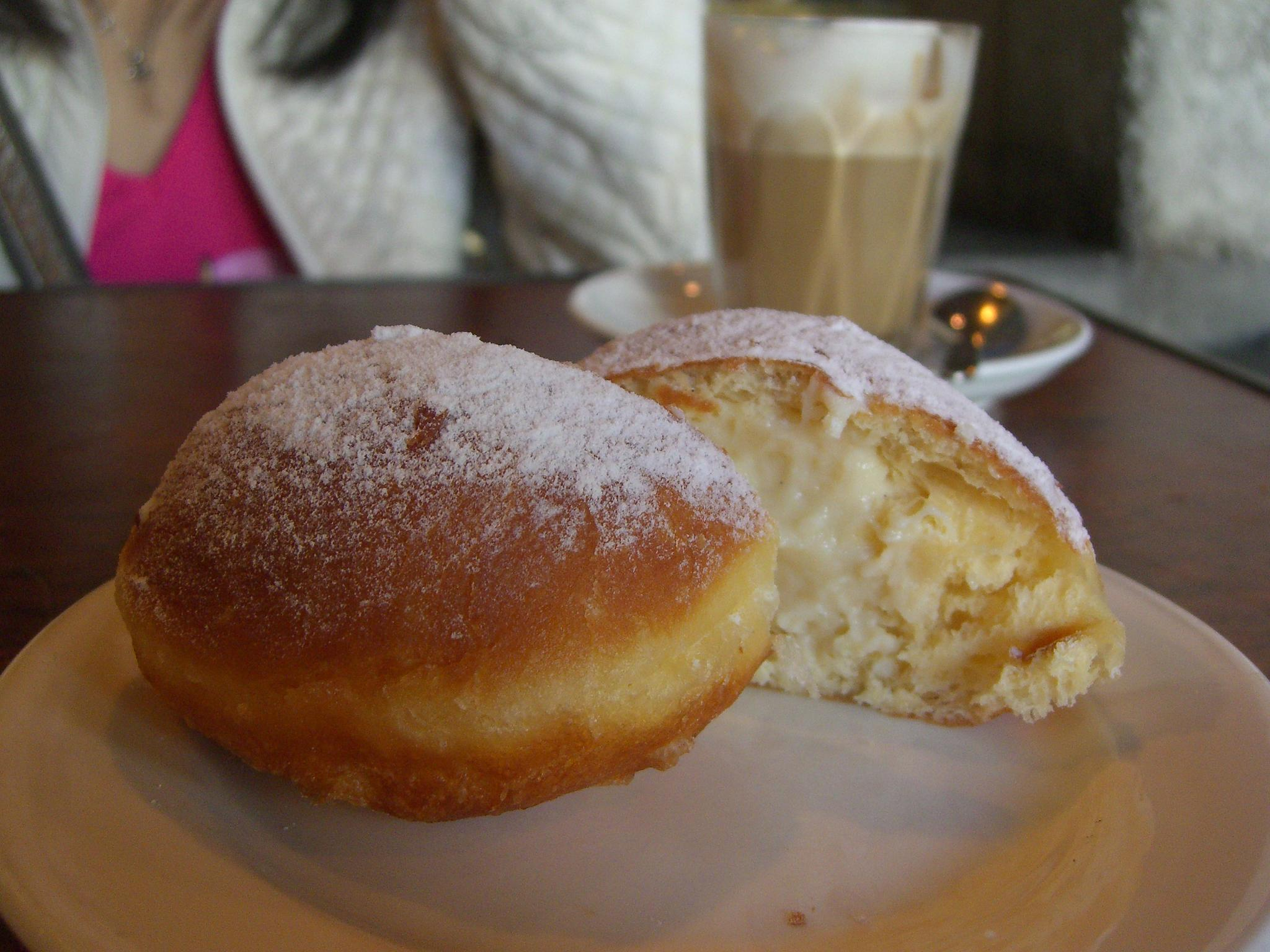 Custard-filled doughnut served by Il Fornaio, St Kilda, Victoria, Australia